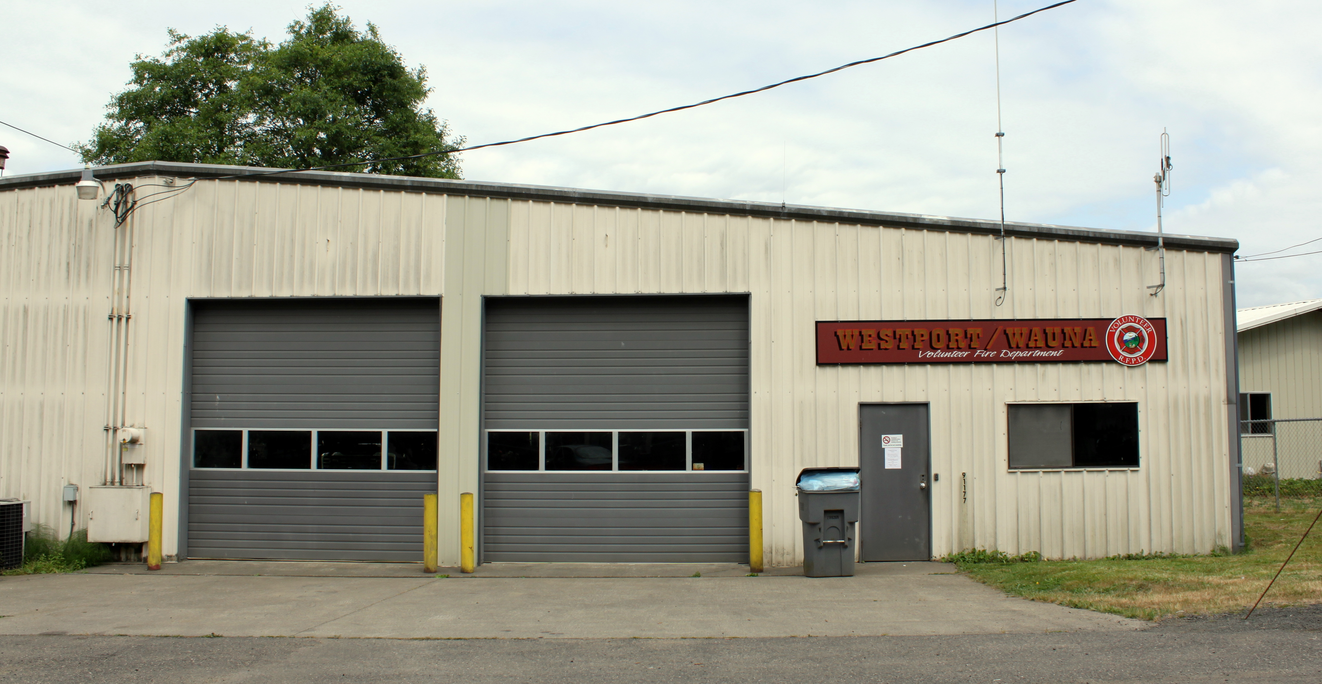 Volunteer Fire Department station in Westport, Oregon.